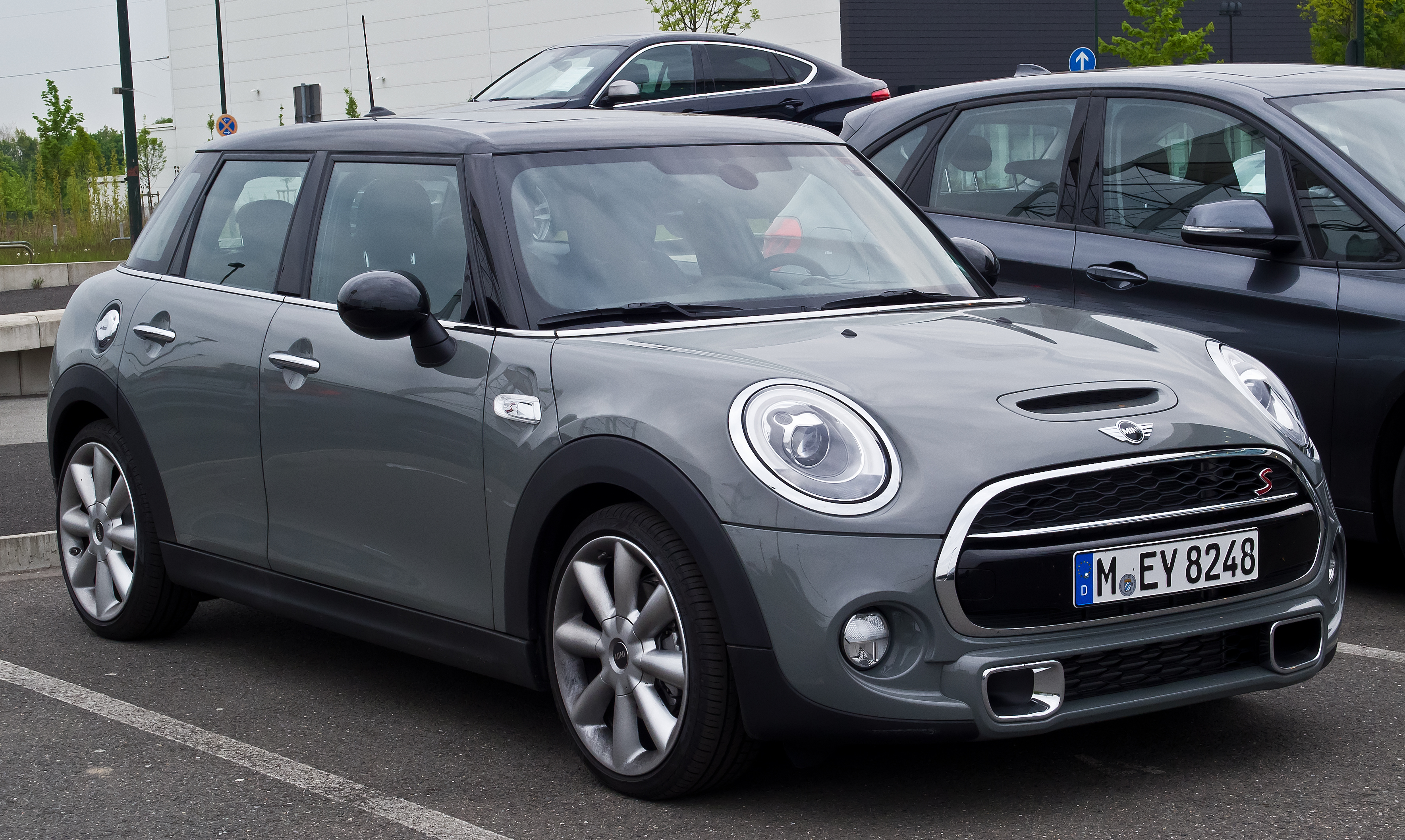 Mini Cooper SD (F55)